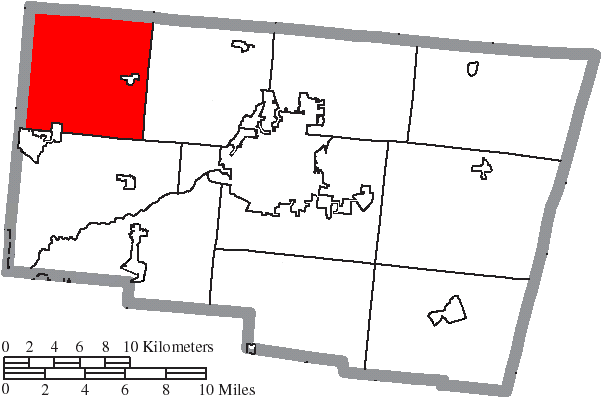 Map of the municipal and township boundaries of Clark County, Ohio, United States, as of the 2000 census, with the location of Pike Township highlighted. Township borders are shown only in unincorporated areas in order to differentiate incorporated and unincorporated areas more clearly.